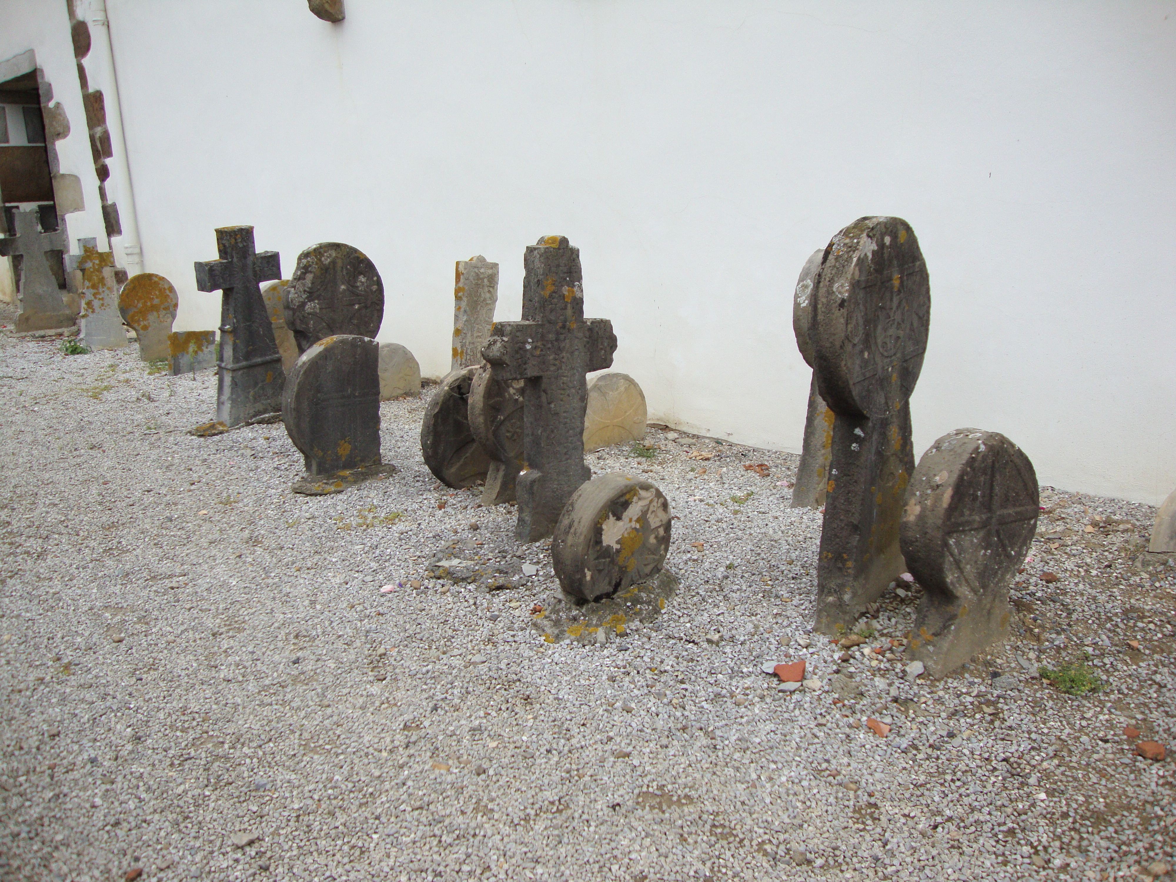 Béhaune (Lantabat, Pyr-Atl, Fr) discoidal steles